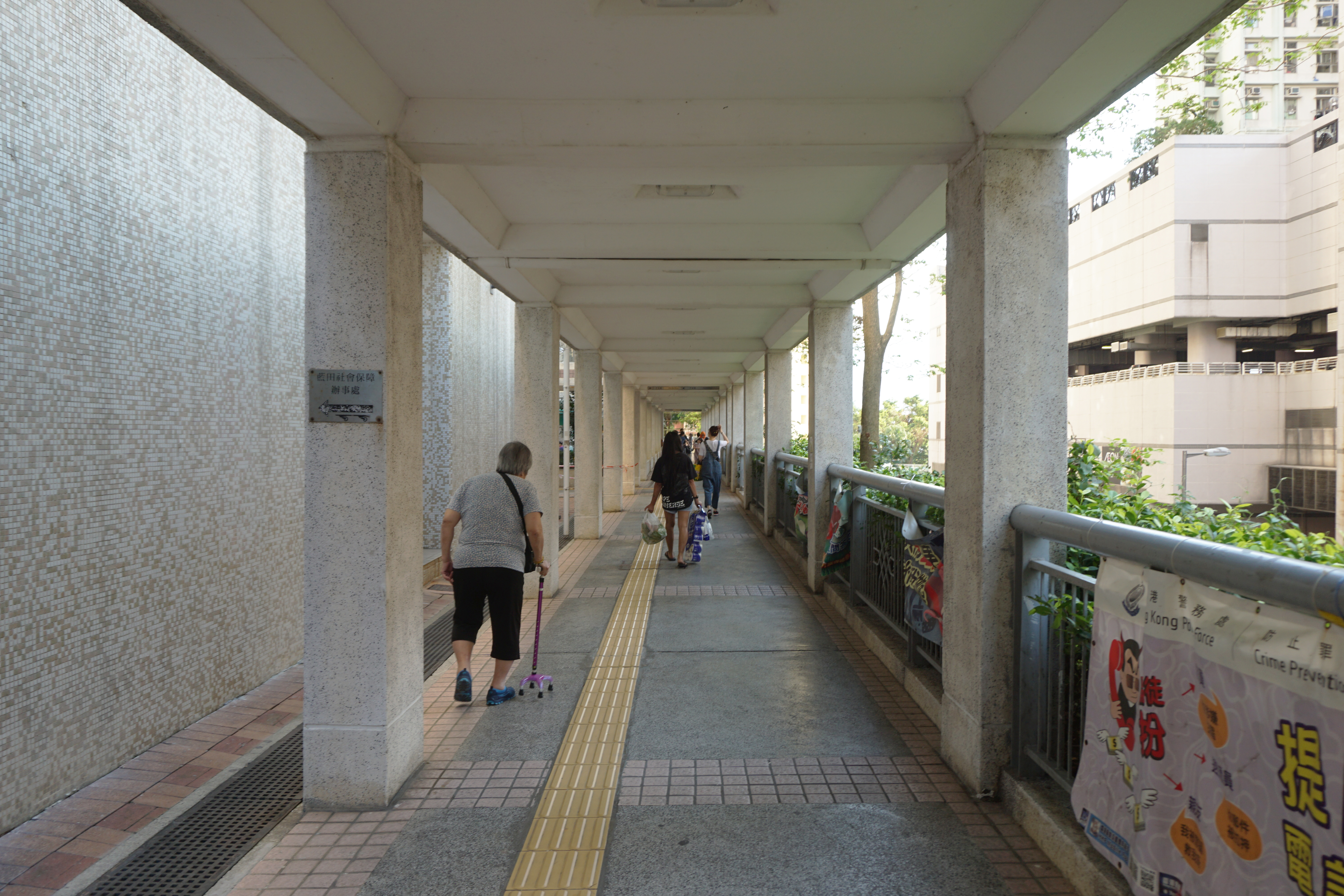 Ping Tin Estate in Lam Tin, Hong Kong.